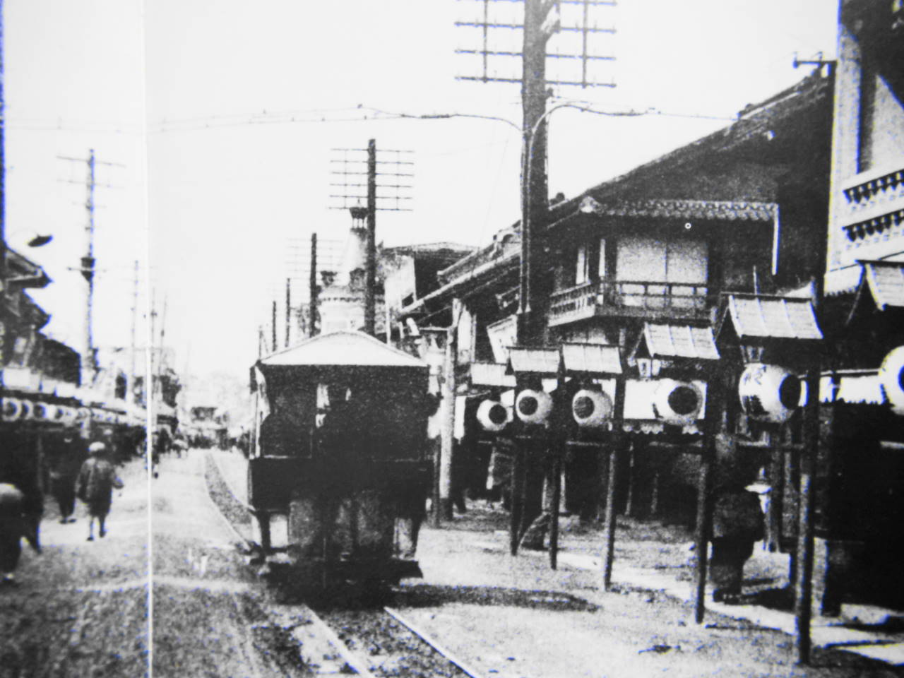 Yamanashi Horse Tram Kofu-City circa 1918